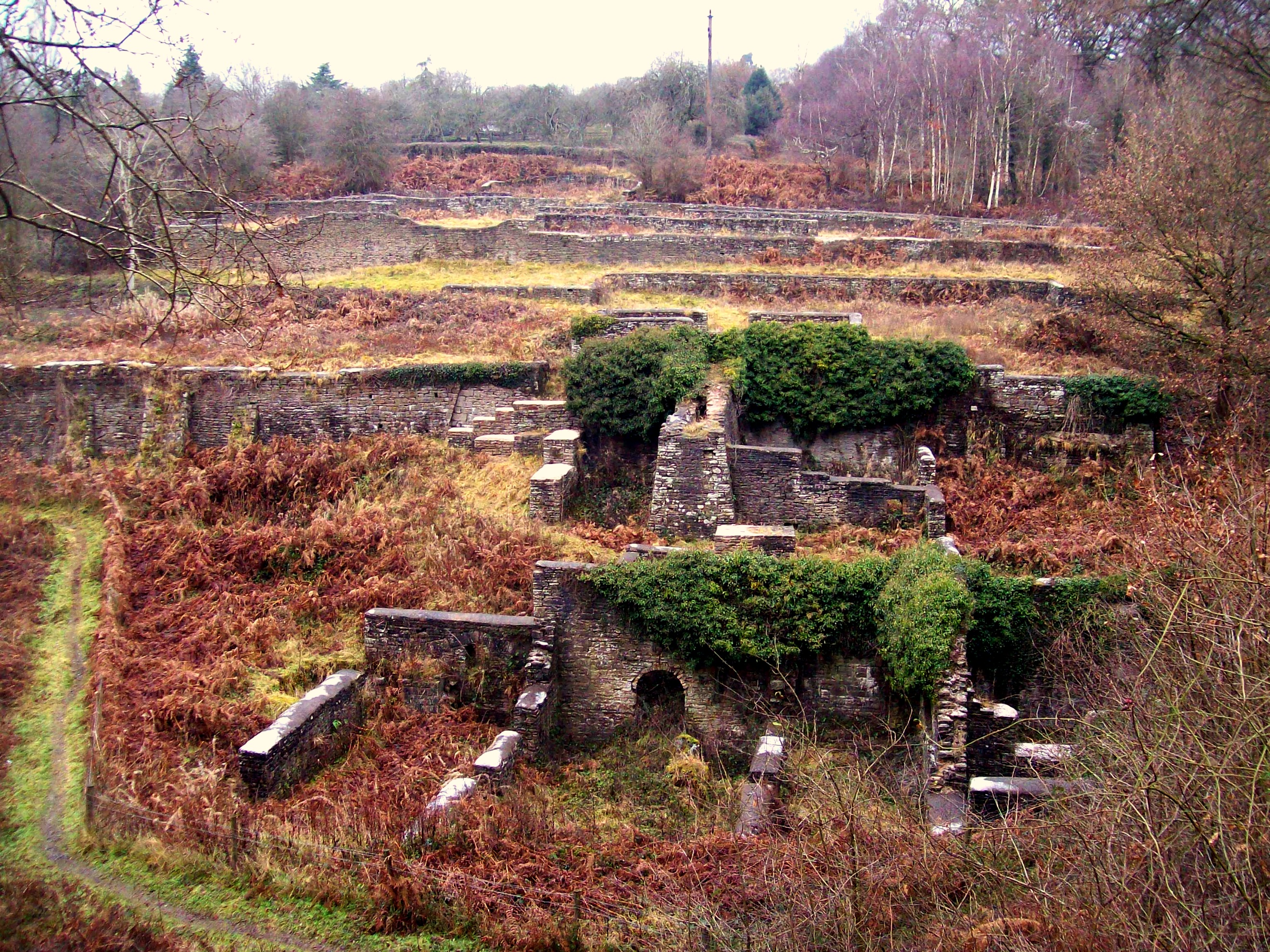 View of Darkhill Ironworks near Gorsty Knoll in the Forest of Dean